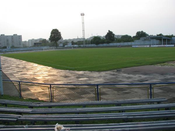 Khimik Stadium in Kalush, Ivano-Frankivsk Oblast, Ukraine